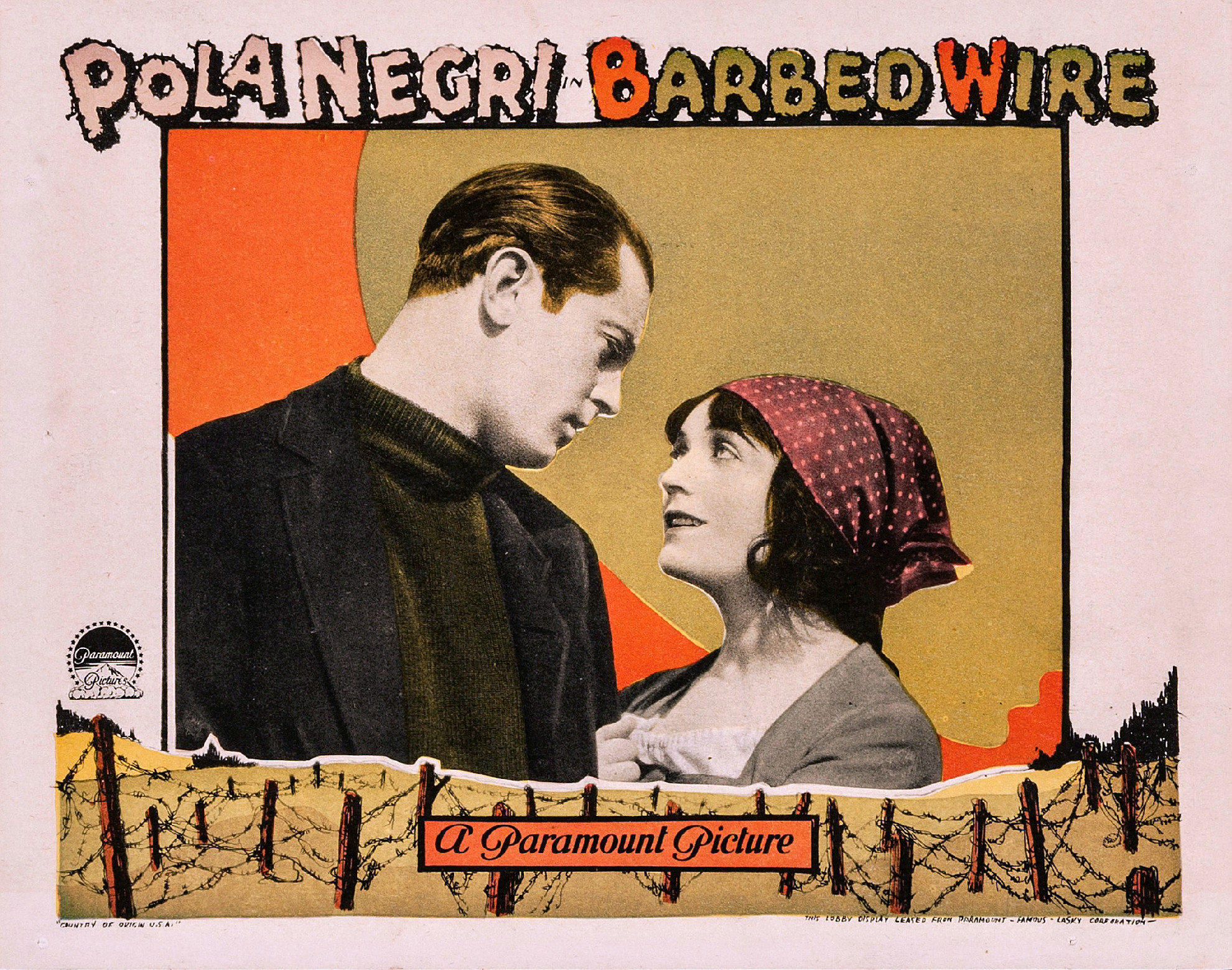 Lobby card for the American romance film Barbed Wire (1927). The item has no copyright markings on it as can be seen in the links above. At bottom left is Country of origin USA. At bottom right is This lobby display leased from Paramount Famous Lasky Corporation.